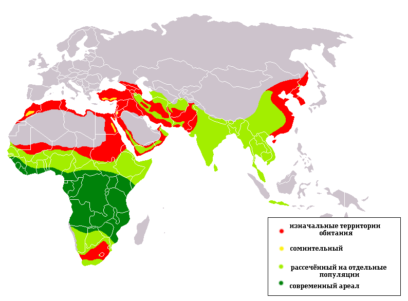 Leopard distribution